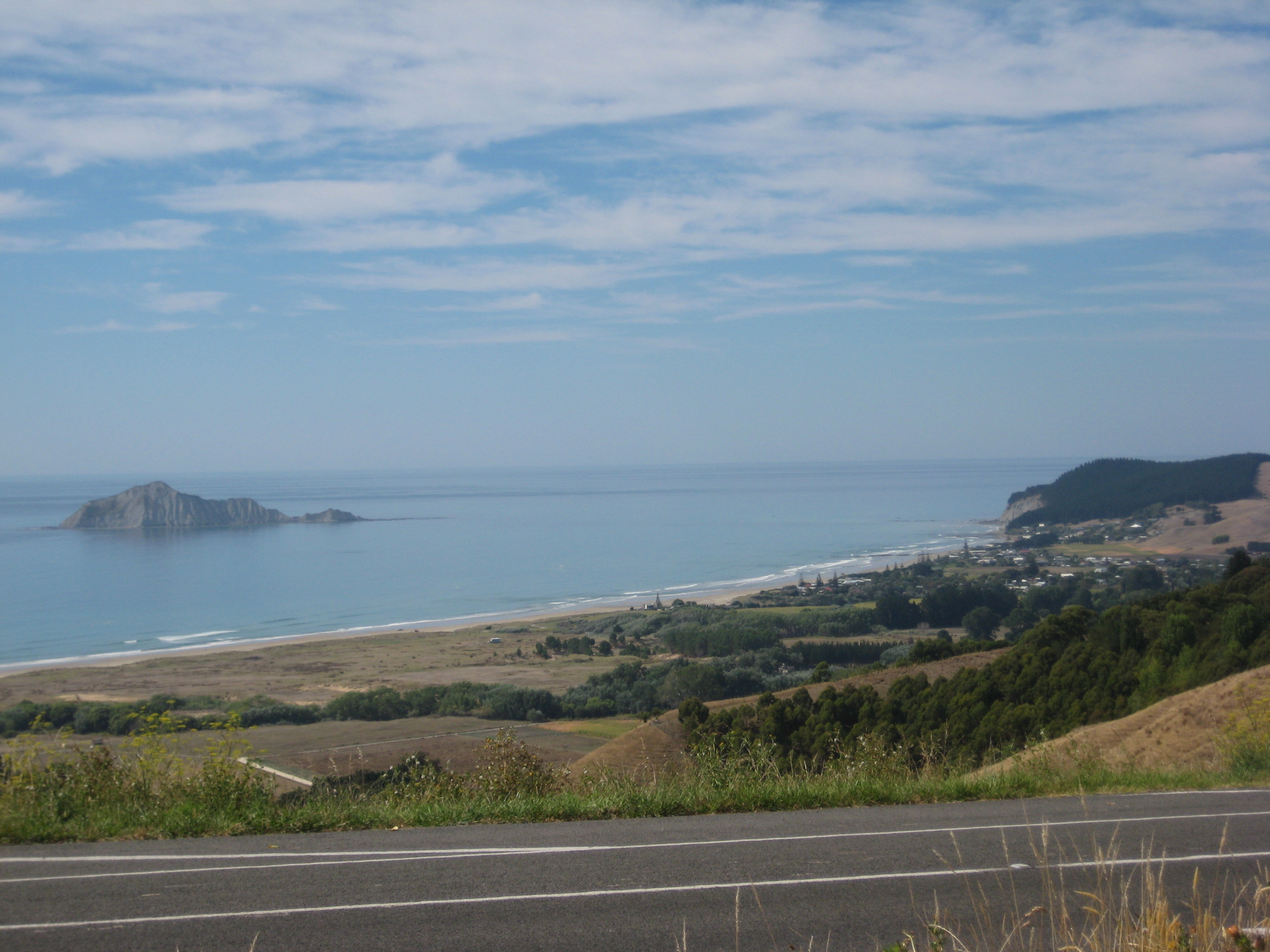 Waimarama from the hills above